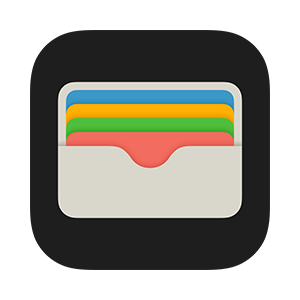 Apple Wallet icon